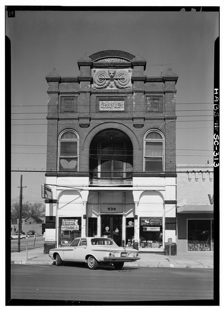 View of the facade of the south elevation of Crowley Store, 936 Front Street, Georgetown, Georgetown County, South Carolina. Historic American Buildings Survey, The Library of Congress, Washington, D. C.